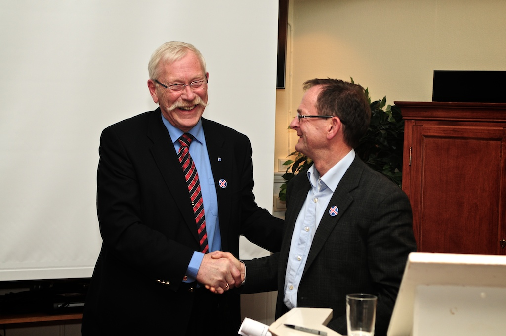 Leader Lars Myraune and guest Erling Lae at the convention of the Conservative Party of Nord-Trøndelag, 2009.